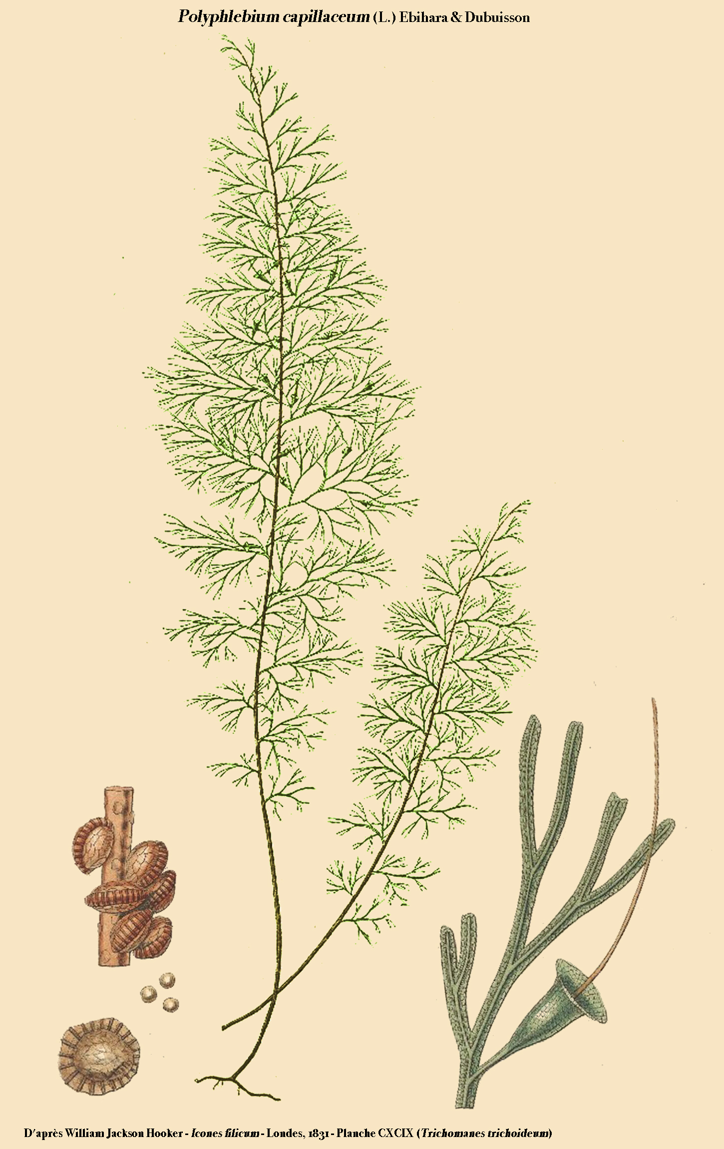 The accepted name is Trichomanes capillaceum L.